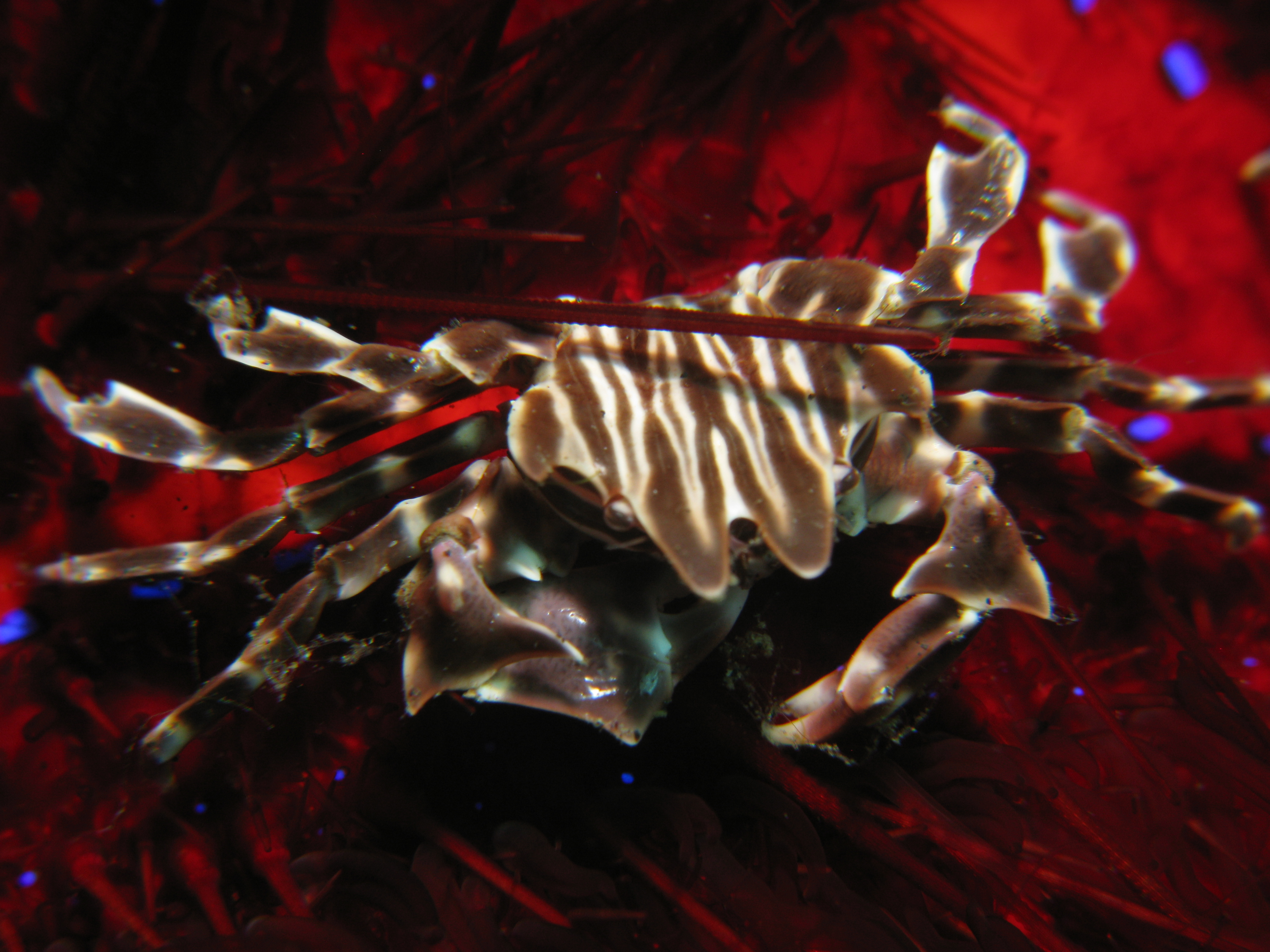 A zebra crab (Zebrida adamsii) on a red sea urchin (Astropyga radiata), in Indonesia.